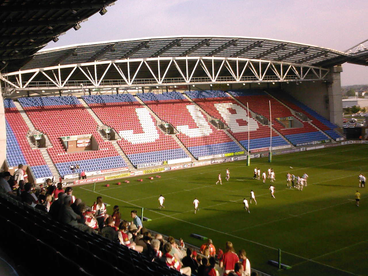 The North (Away) Stand of the JJB Stadium